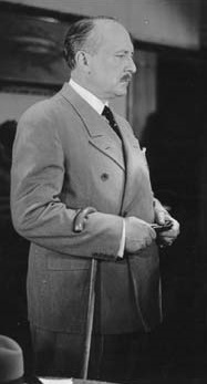 Julio C. Traversa -actor